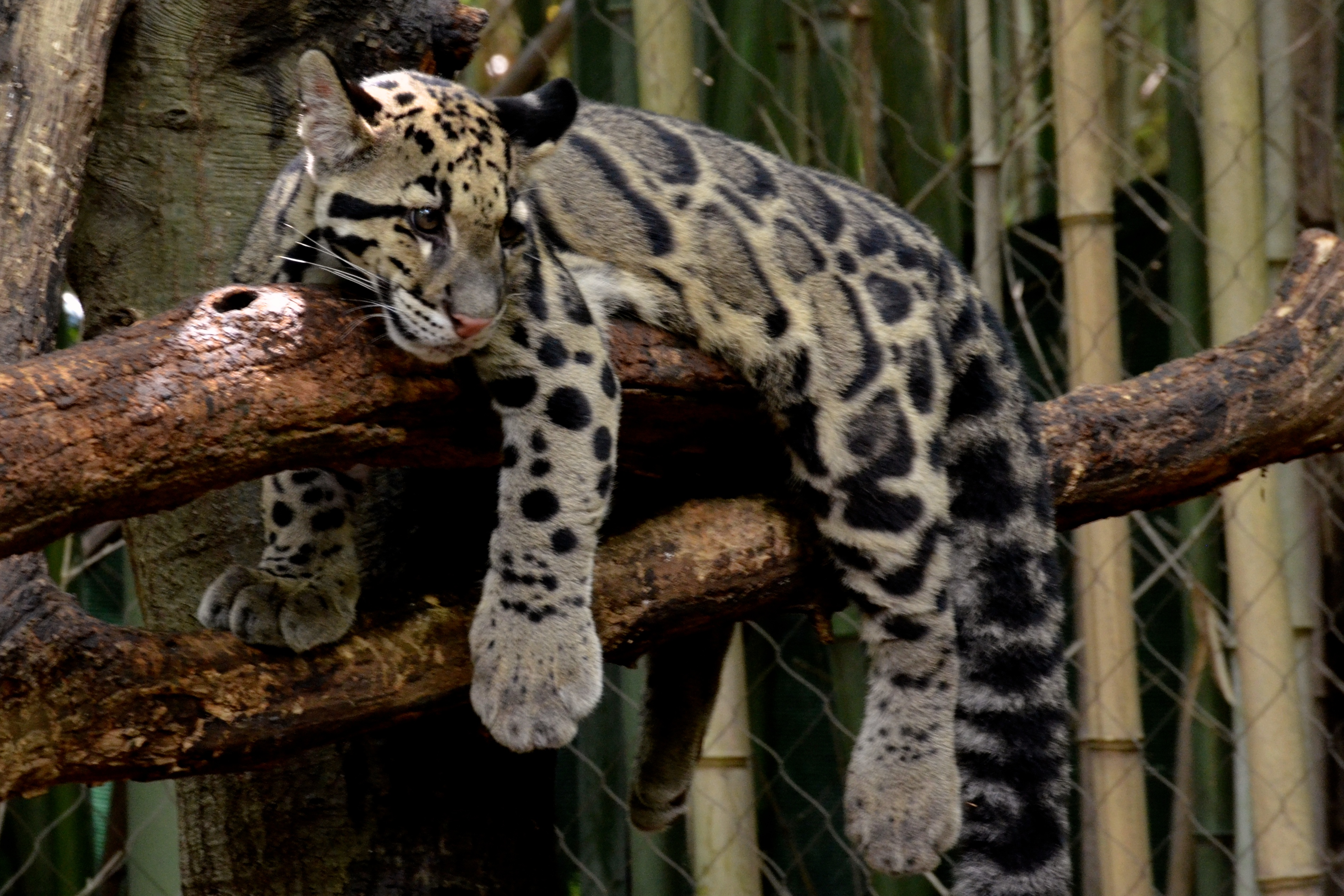 Lazy Clouded Leopard